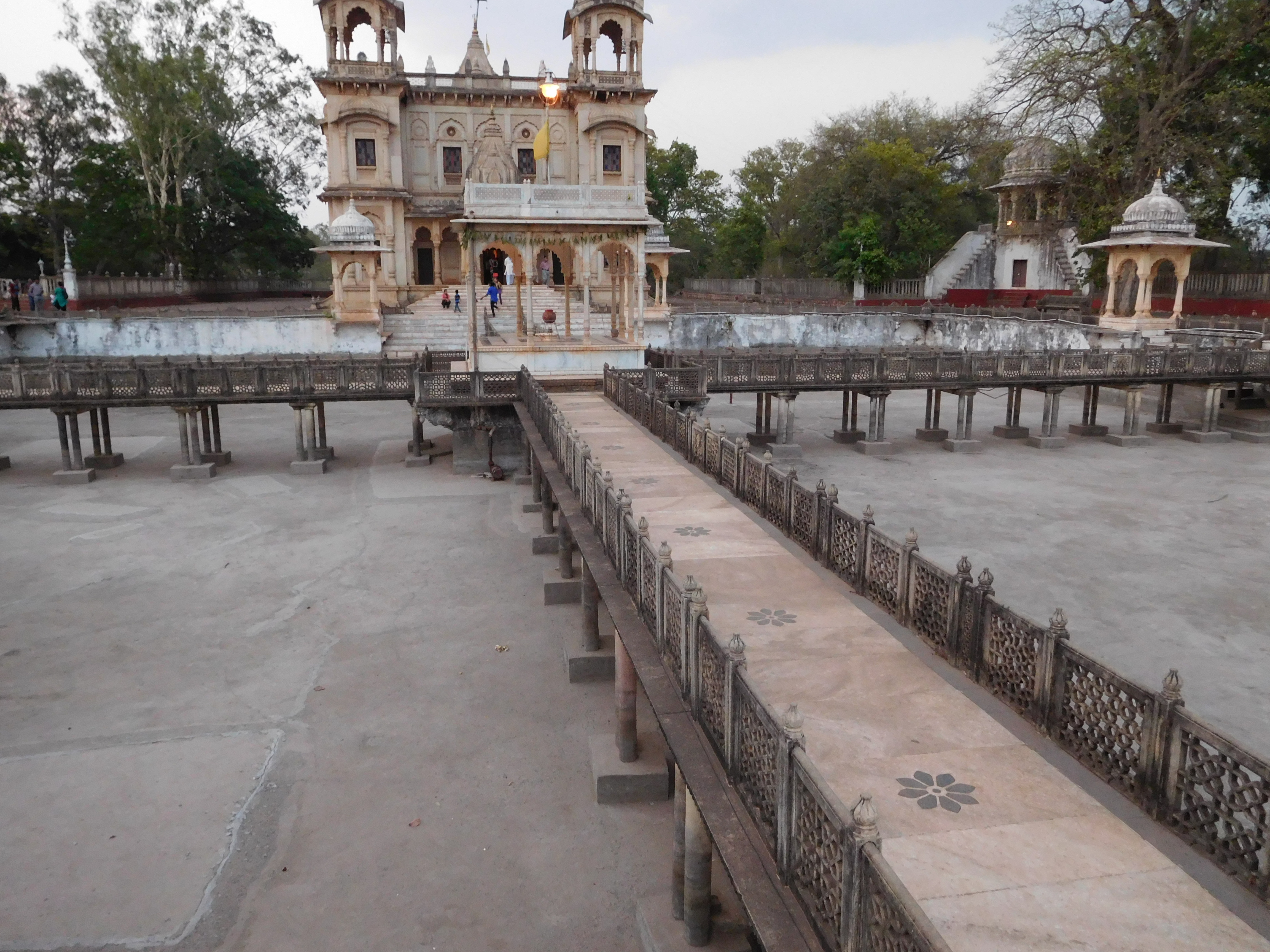 Tank view of Chhatari ,Shivpuri,Madhya Pradesh,India.